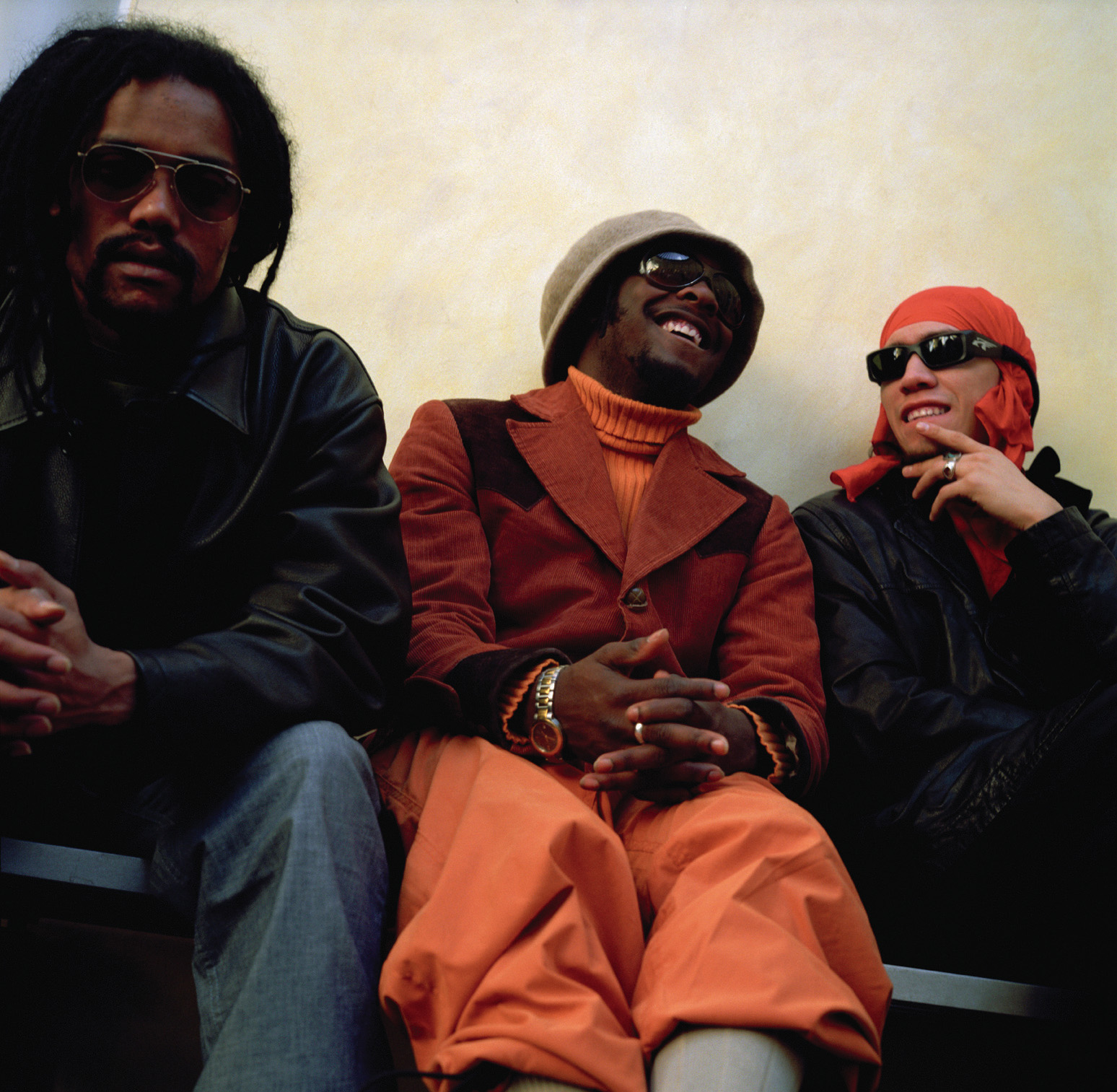 Hamburg/Germany 2000